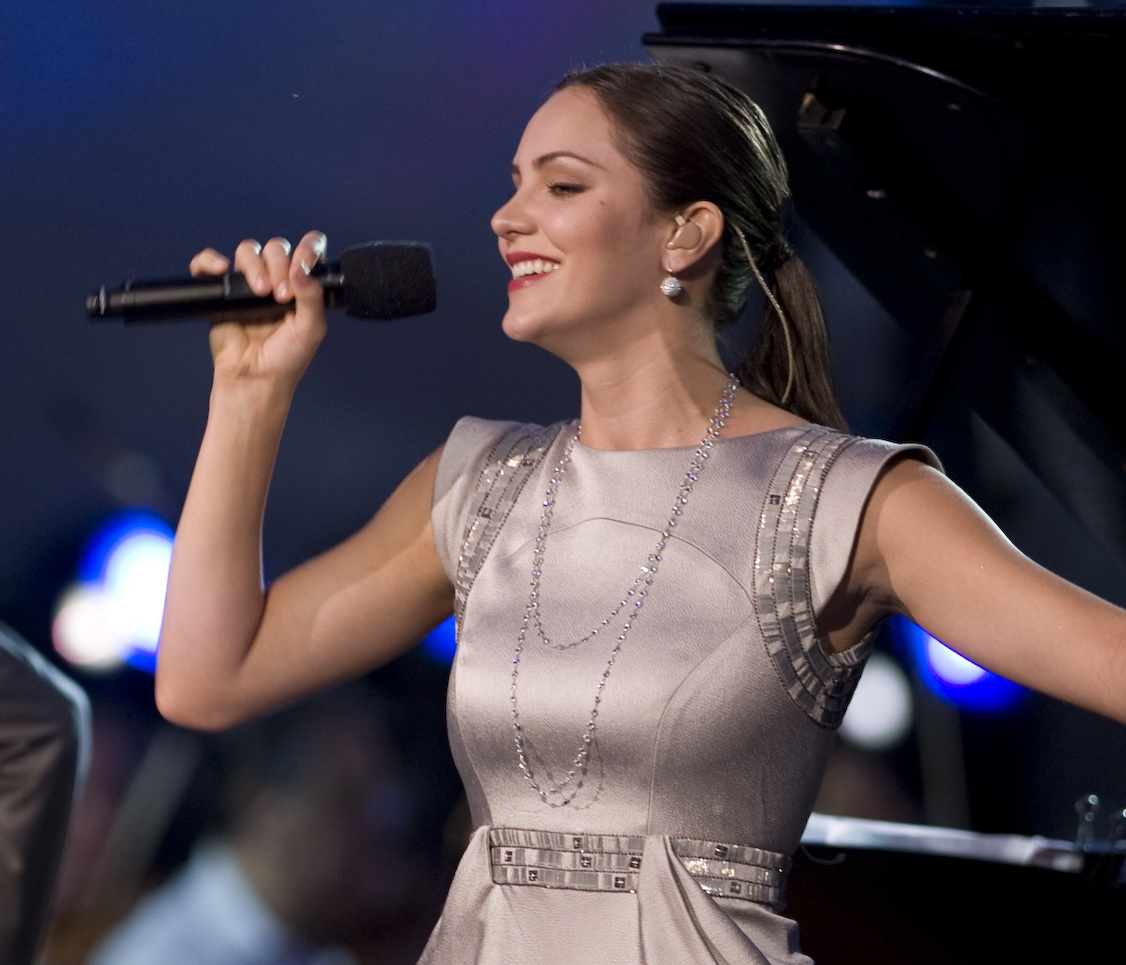 Singer Katherine McPhee and pianist Lang Lang perform at the National Memorial Day Concert in Washington, D.C., May 24, 2009.